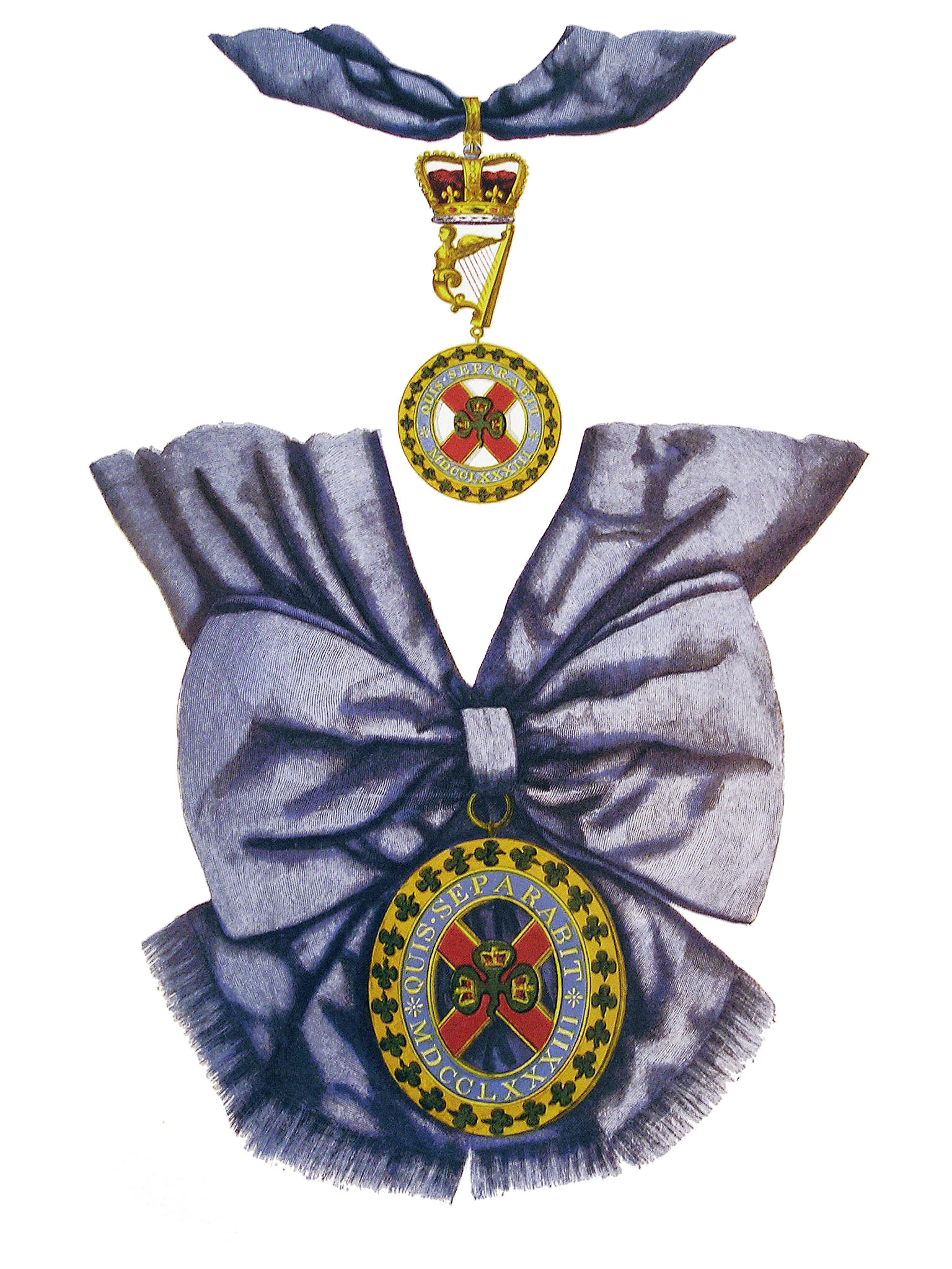 Badges of the Order of St Patrick. Top: Badge of the Grand Master of the Order. Bottom: Badge and Riband of a Knight Companion of the Order